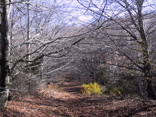 Fagus sylvatica in turó de Morou, Massís del Montseny, la Selva, Catalonia